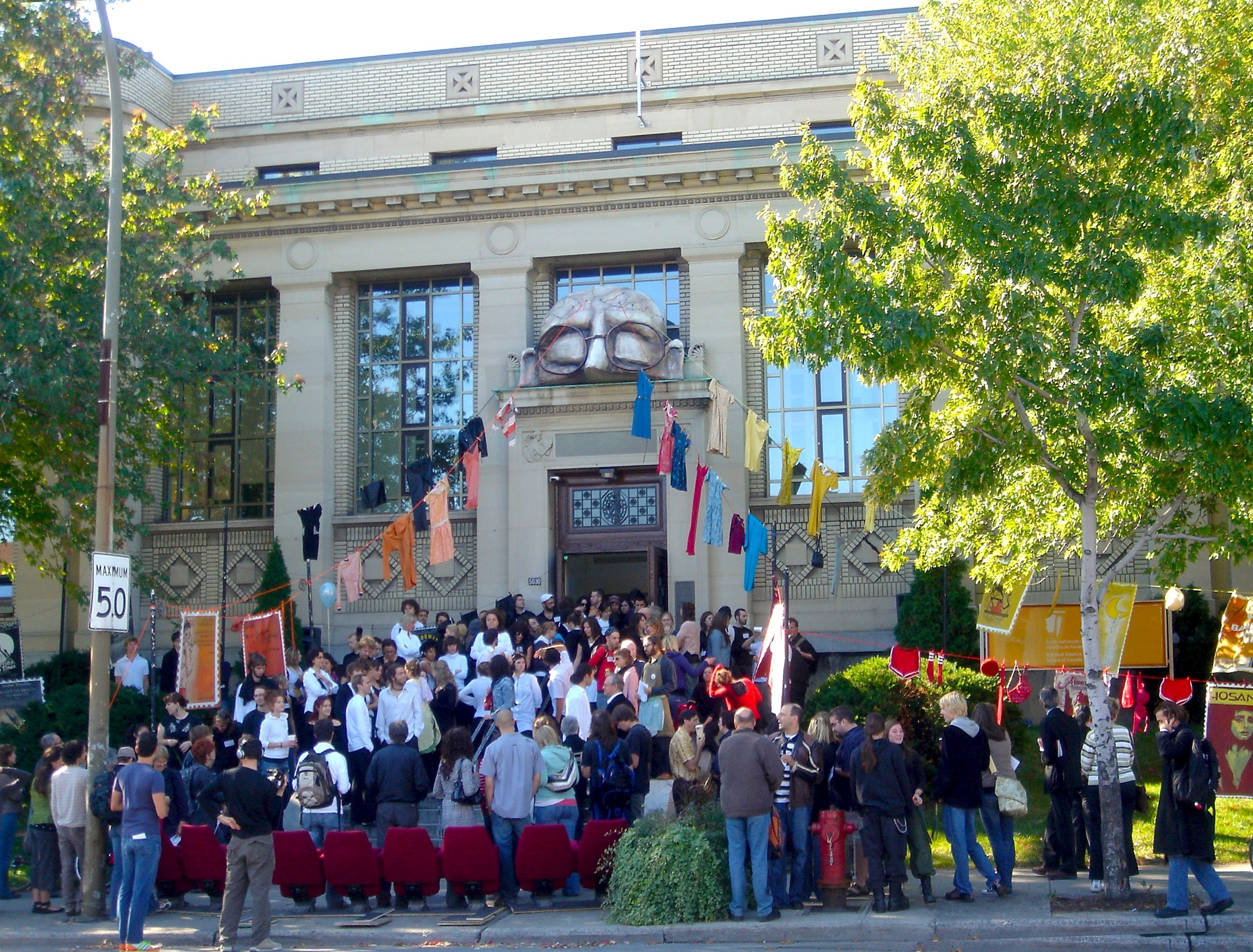 The Saint-Denis Pavilion of the National Theatre School of Canada in Montreal (5030, St-Denis). Open house 2007